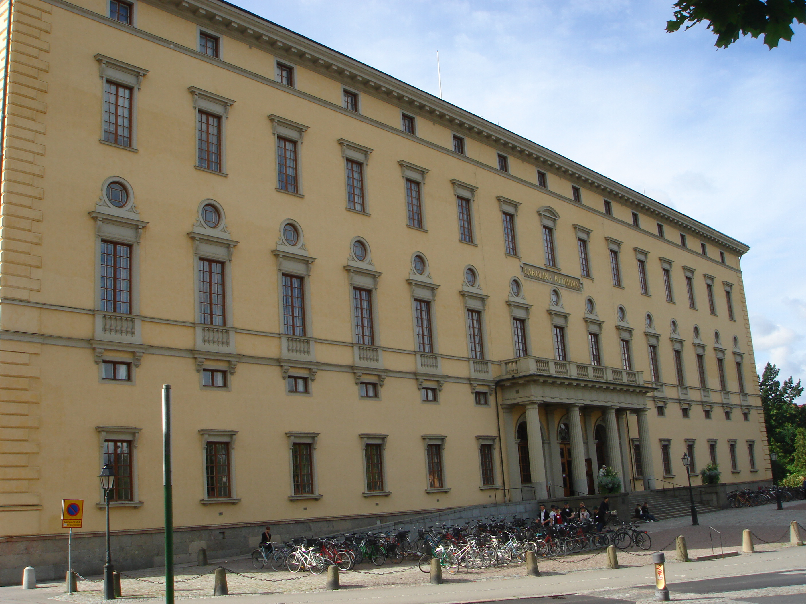 Carolina Rediviva, University library, Uppsala, Sweden